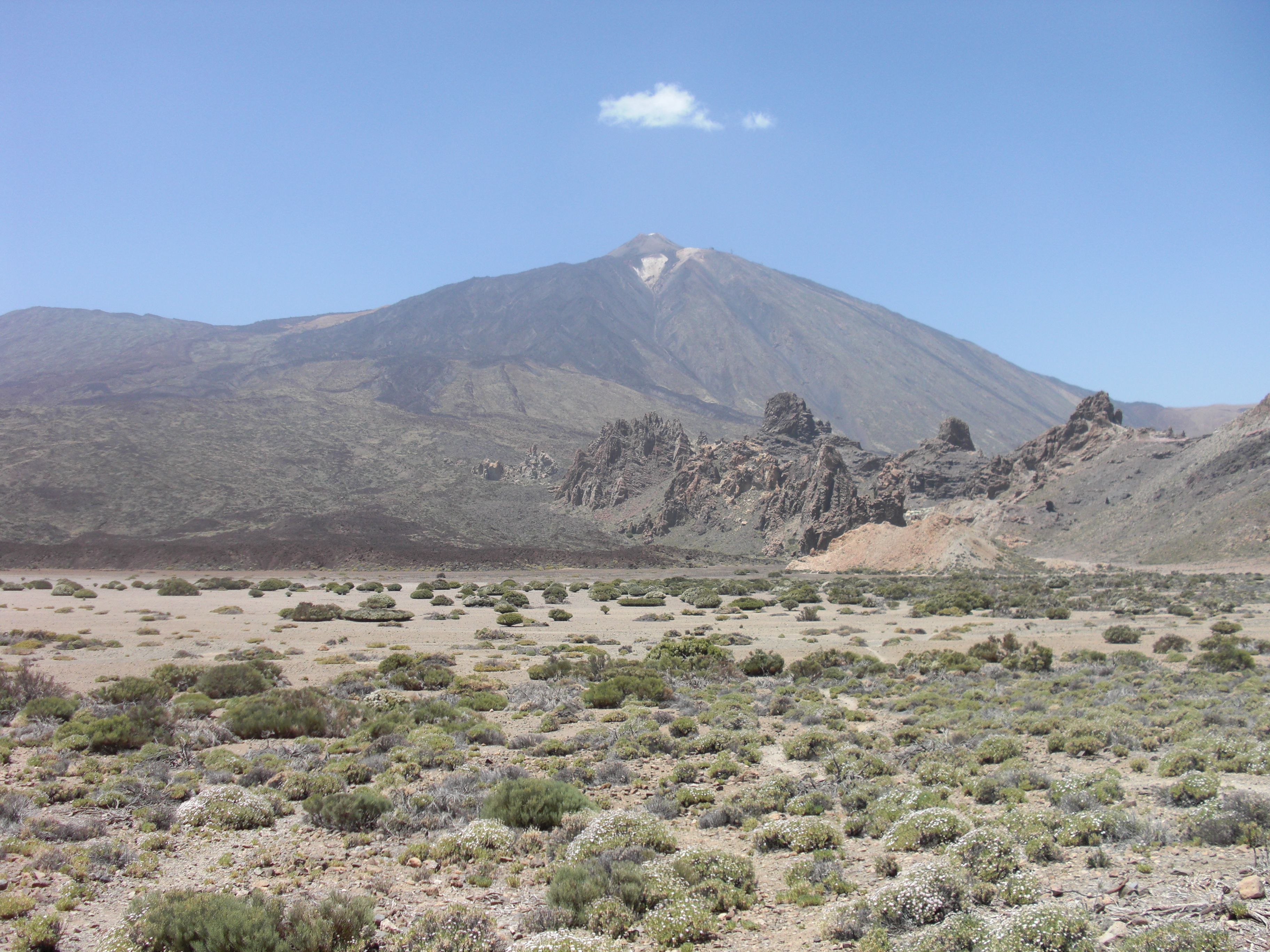 Mount Teide (Spanish: Pico del Teide, IPA: [ˈpiko ðel ˈteiðe], "Teide Peak") is a volcano on Tenerife in the Canary Islands.